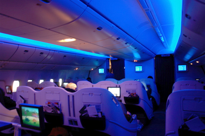 MH 777 business class